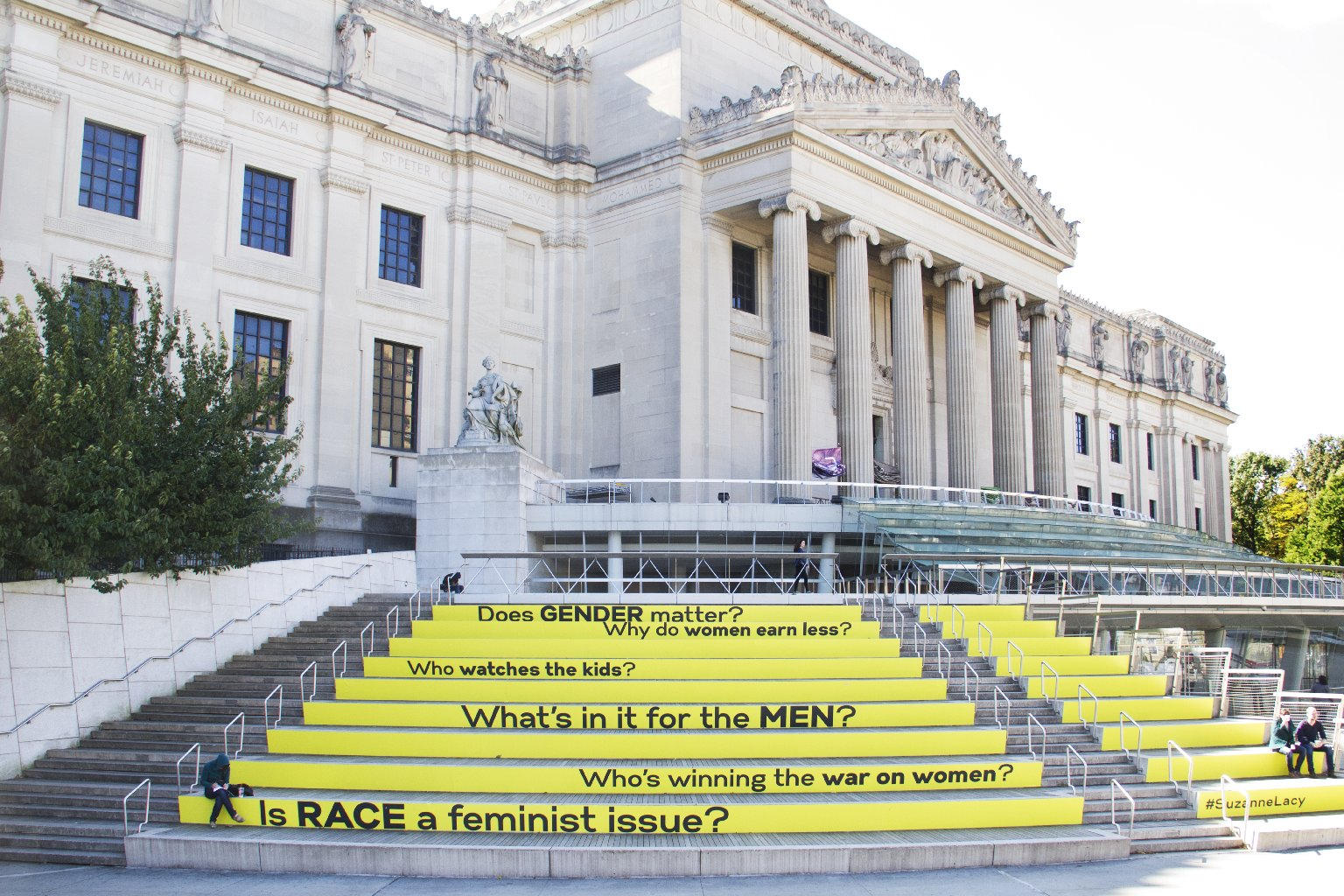 On Saturday, October 19, 2013, Creative Time and the Elizabeth A. Sackler Center for Feminist Art at the Brooklyn Museum presented Between the Door and the Street, a major work by the internationally celebrated artist Suzanne Lacy, perhaps the most important socially-engaged artist working today. Some 400 women and a few men–all selected to represent a cross-section of ages, backgrounds, and perspectives–gathered on the stoops along Park Place, a residential block in Brooklyn, where they engaged in unscripted conversations about a variety of issues related to gender politics today. Thousands of members of the public came out to wander among the groups, listen to what they were saying, and form their own opinions.